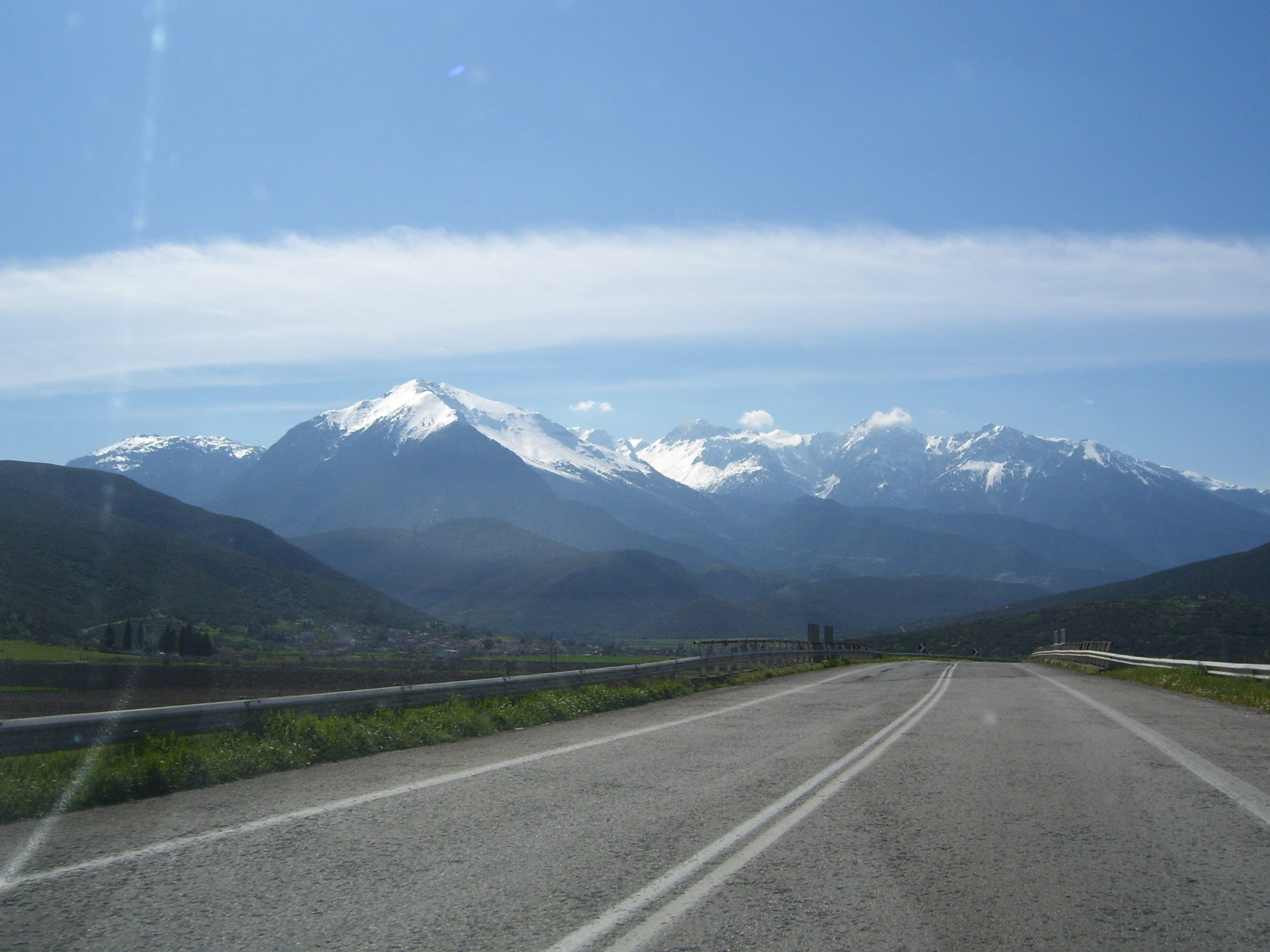 Parnassos Mountain